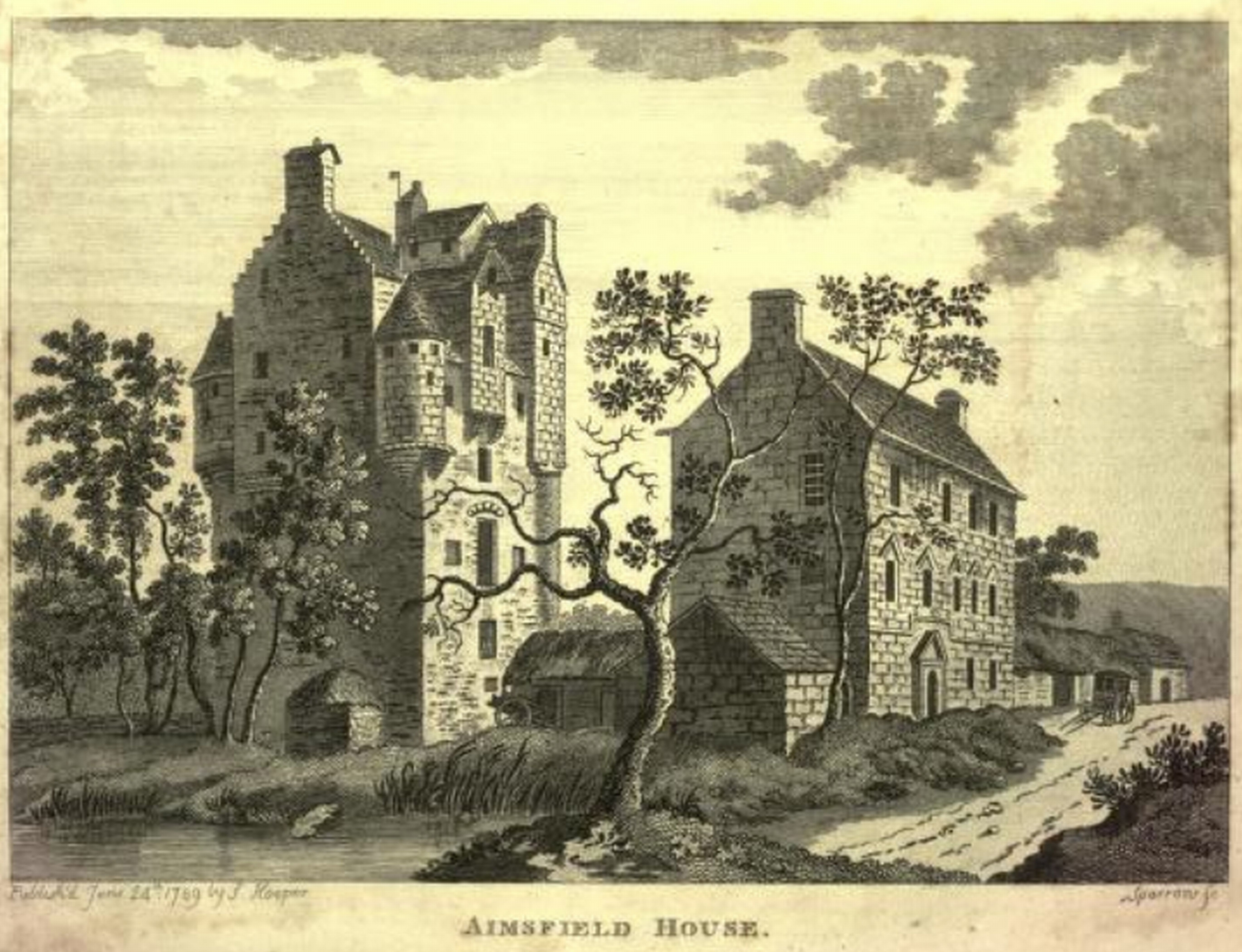 Amisfield Tower, Tinwald, Dumfriesshire, Scotland. Drawing by Francis Grose. c.1789. This work is in the public domain in its country of origin and other countries and areas where the copyright term is the author's life plus 100 years or less. You must also include a United States public domain tag to indicate why this work is in the public domain in the United States. This file has been identified as being free of known restrictions under copyright law, including all related and neighboring rights.